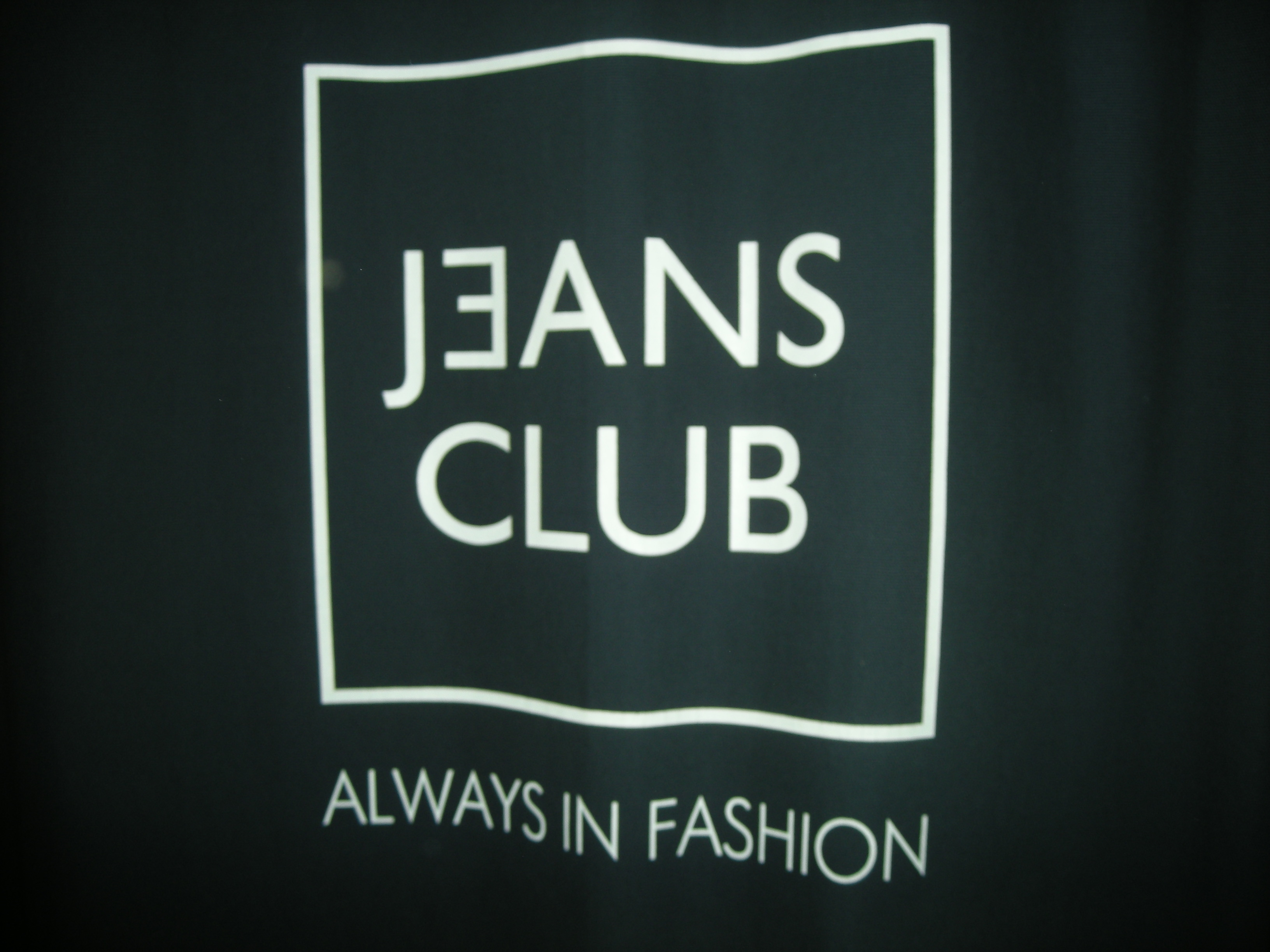 Jeans club logo at changing room, Palladium shoping centre in Prague.